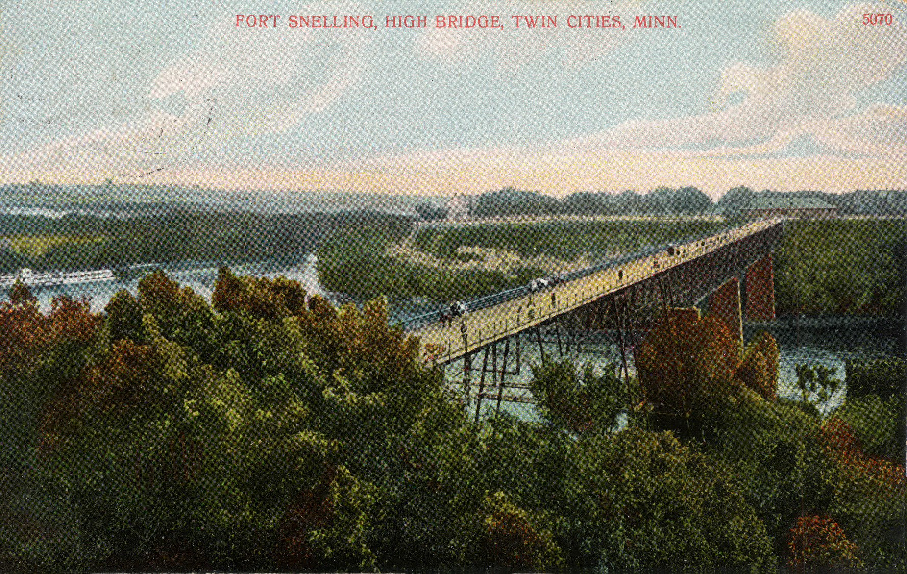 Bridge linking Ft. Snelling with Saint Paul, Minnesota, United States, c. 1880.